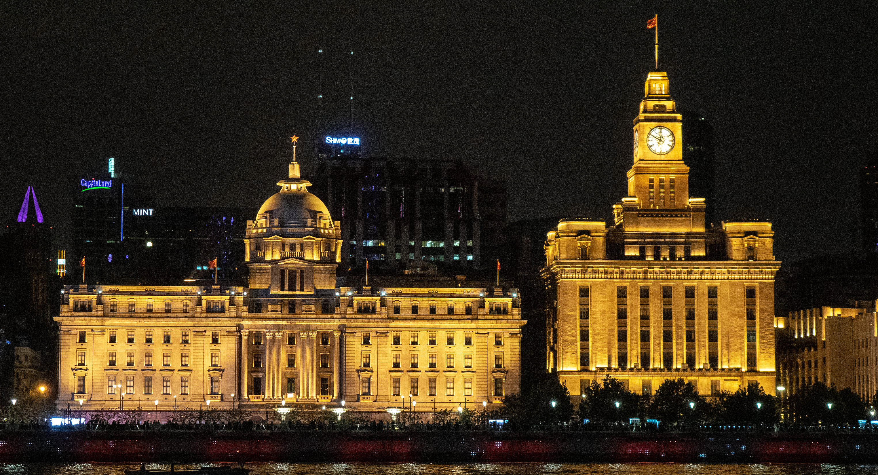 The Hongkong and Shanghai Banking Corporation Limited (HSBC), built in 1923 and the neighboring Customs House built in 1927